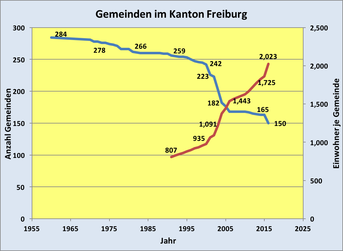 The number of municipalities in the Canton of Freiburg from 1960 to 2016.